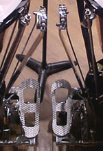 Timpani.